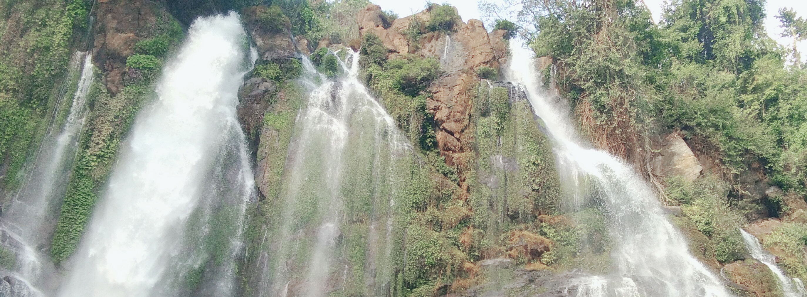 Bheloghat Waterfalls